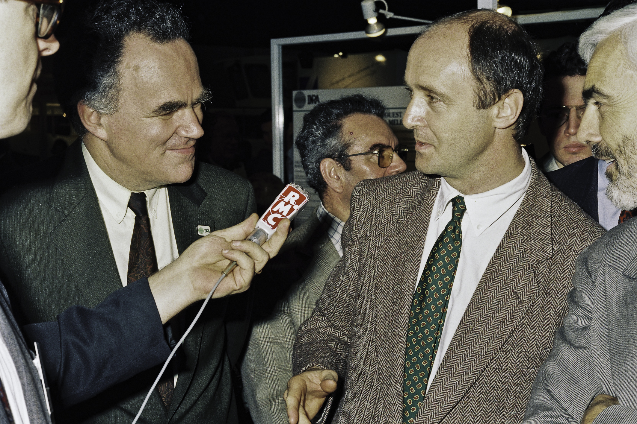 Visite de Mr Brice Lalonde au SIA